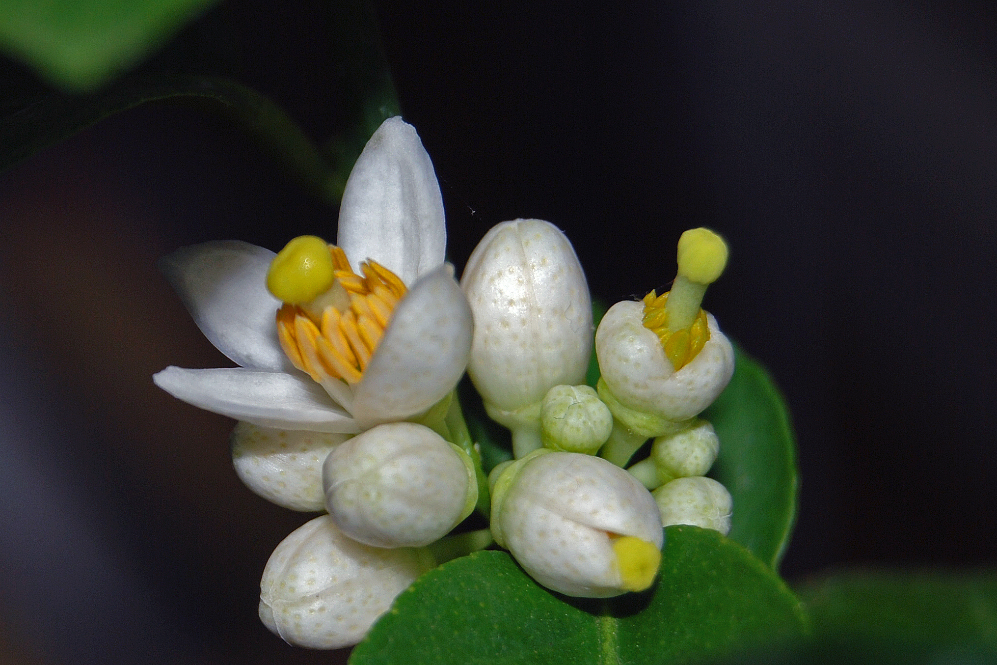 The Key lime (Citrus aurantifolia) is a citrus species with a globose fruit, 2.5–5 cm in diameter (1–2 in), that is yellow when ripe but usually picked green commercially. It is smaller, seedier, has a higher acidity, a stronger aroma, and a thinner rind than that of the Persian lime (Citrus x latifolia). It is valued for its unique flavor compared to other limes, with the key lime usually having a more tart and bitter flavor. The name comes from its association with the Florida Keys, where it is best known as the flavoring ingredient in Key lime pie. It is also known as West Indian lime, Bartender's lime, Omani lime, Tahitian lime or Mexican lime, the latter classified as a distinct race with a thicker skin and darker green color.